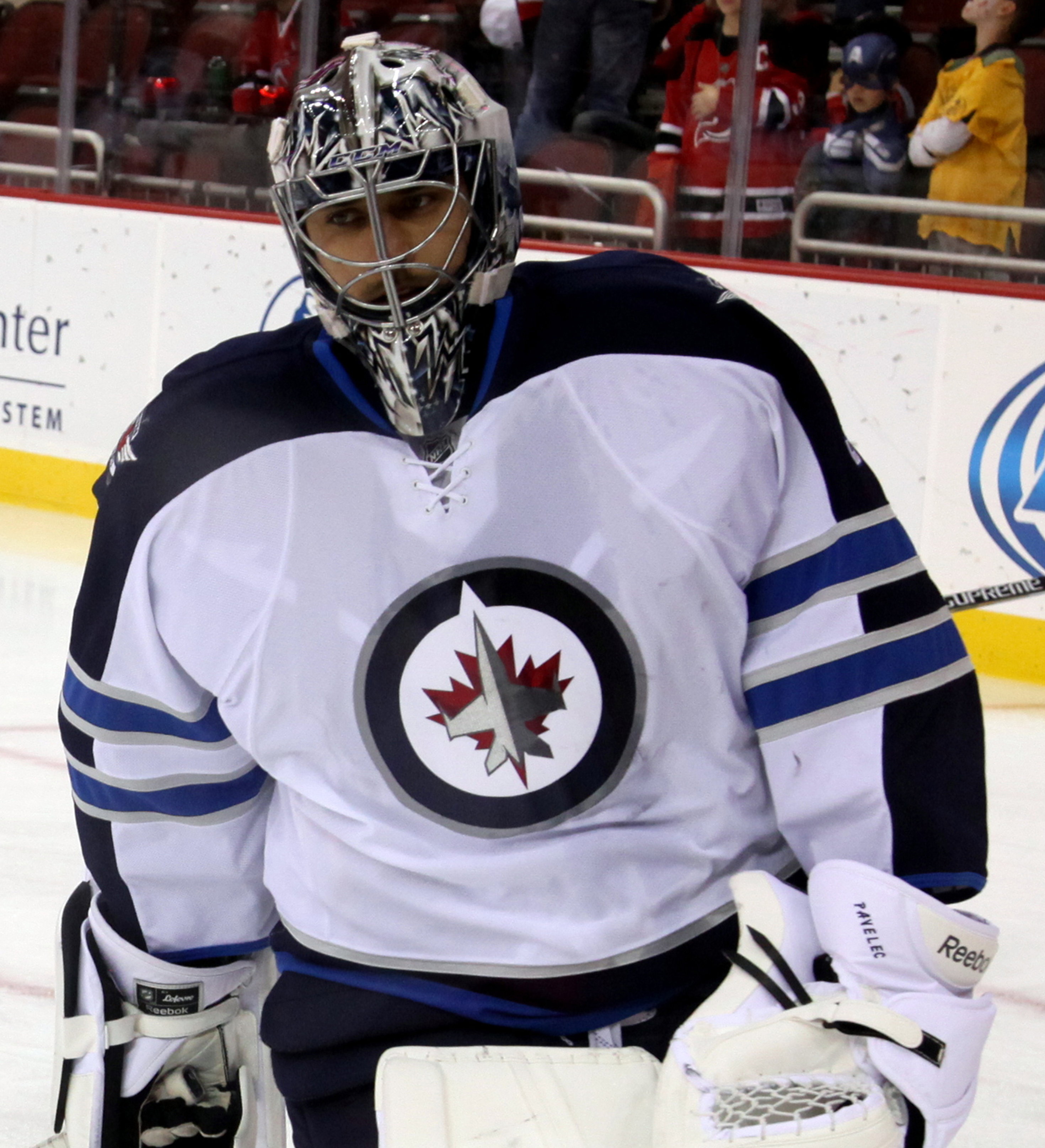 Pavelec in October 2014.